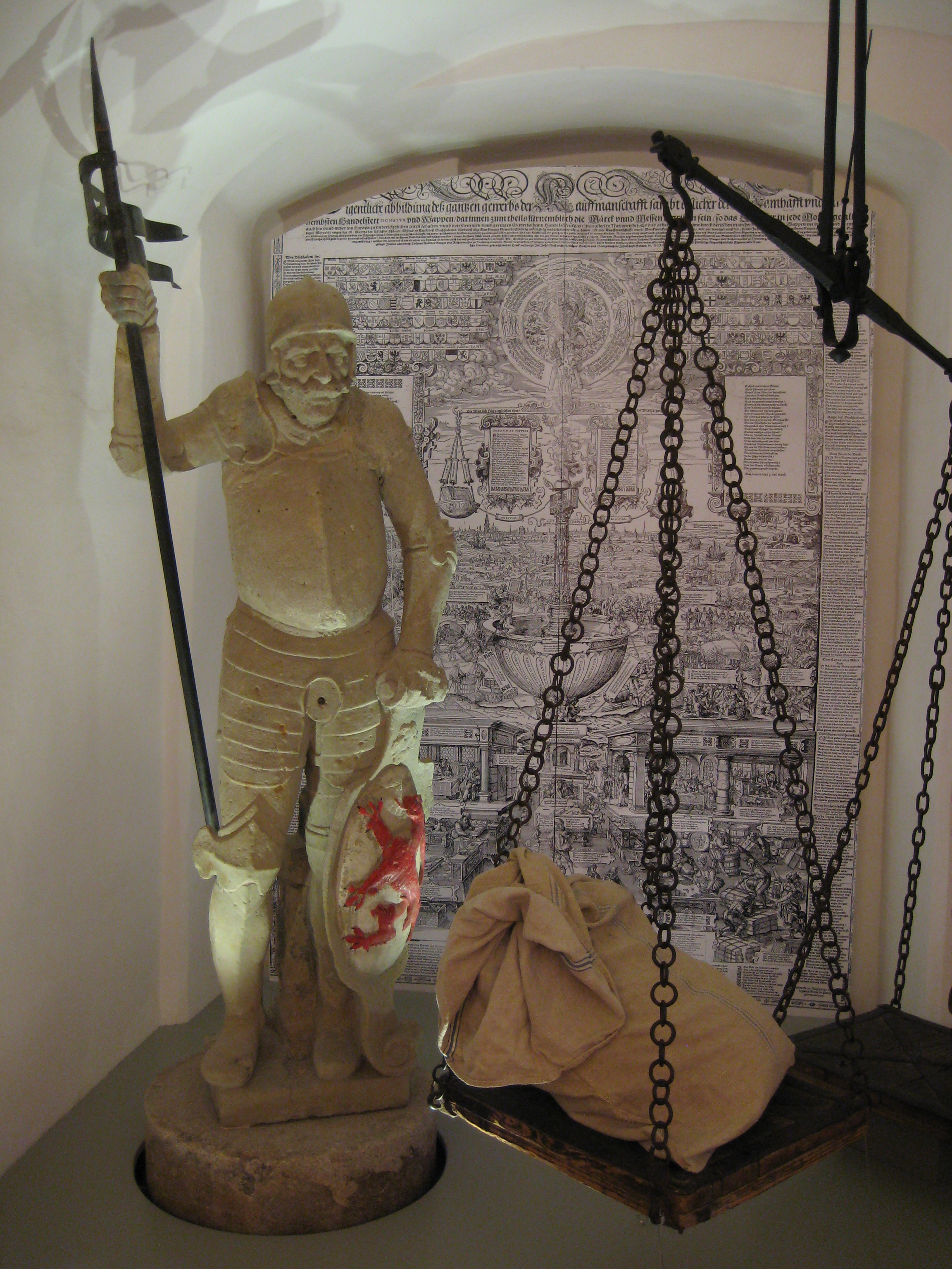 Museum in Veste Oberhaus, Passau